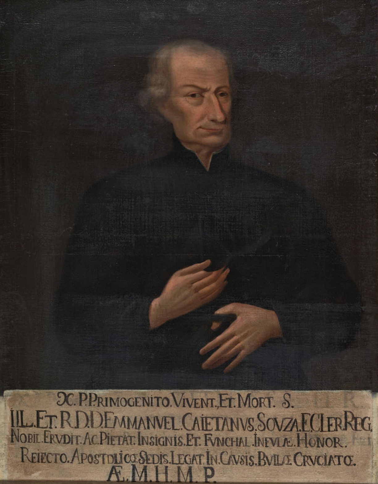 Manuel Caetano de Sousa (1658-1734), Portuguese clergyman.